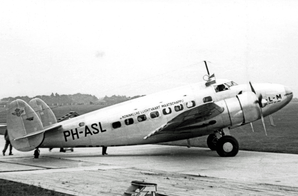 Lockheed 14-WF-62 PH-ASL "Lepelaar" of KLM Royal Dutch Airlines at Manchester (Ringway) Airport